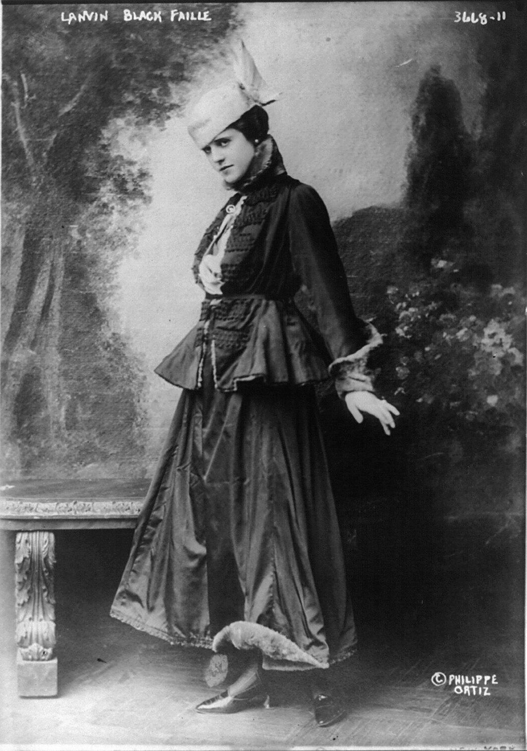 November 1915 Lanvin fashion from Paris Title: [Women's fashions: black faille gown by Lanvin] Date Created/Published: 1915 Nov. Medium: 1 photographic print. Reproduction Number: LC-USZ62-56770 (b&w film copy neg.) Rights Advisory: No known restrictions on publication. Call Number: LOT 7177 [item] [P&P]